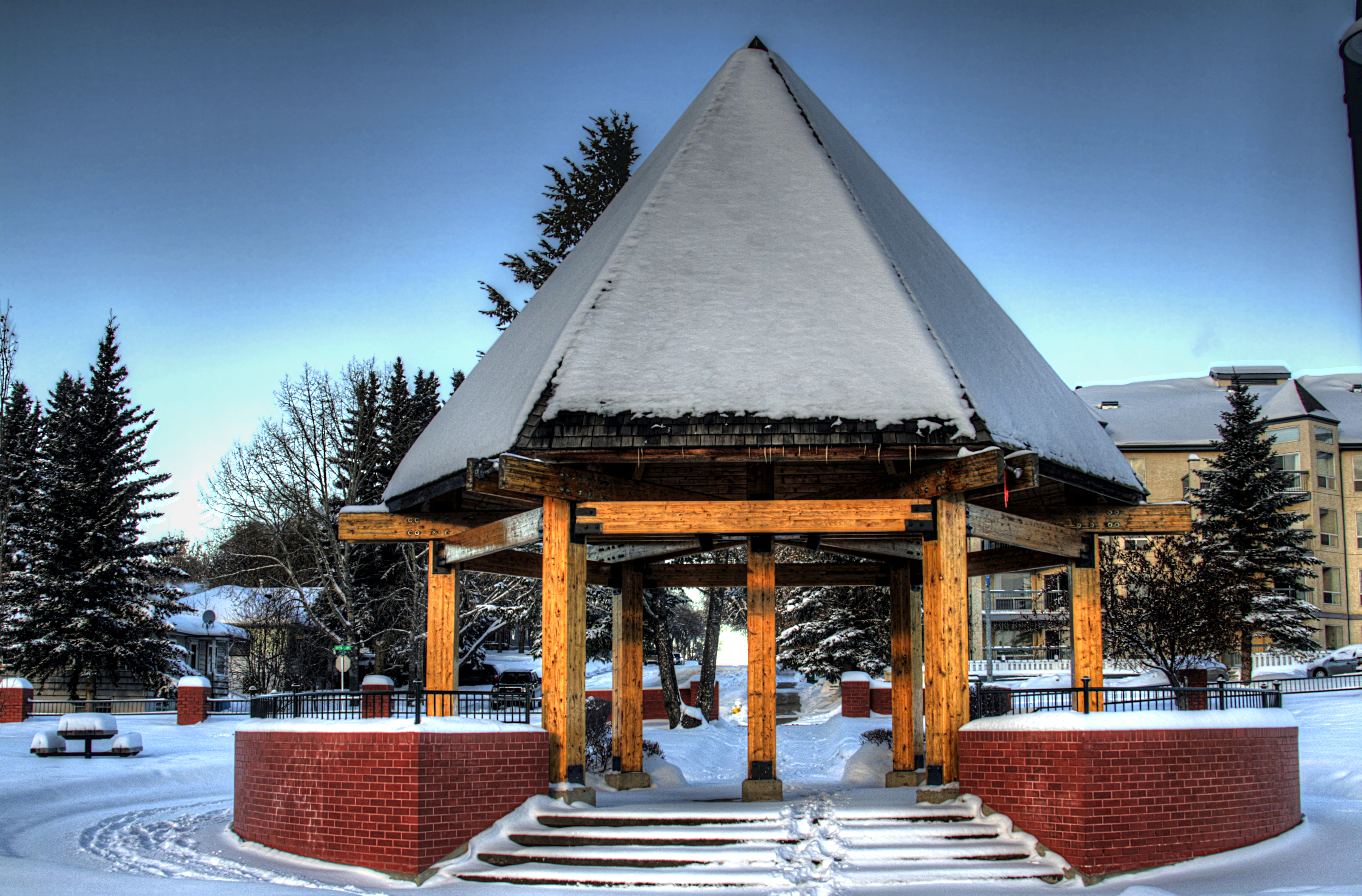 The pavilion in the Mirror Lake Park, Camrose, Alberta, Canada